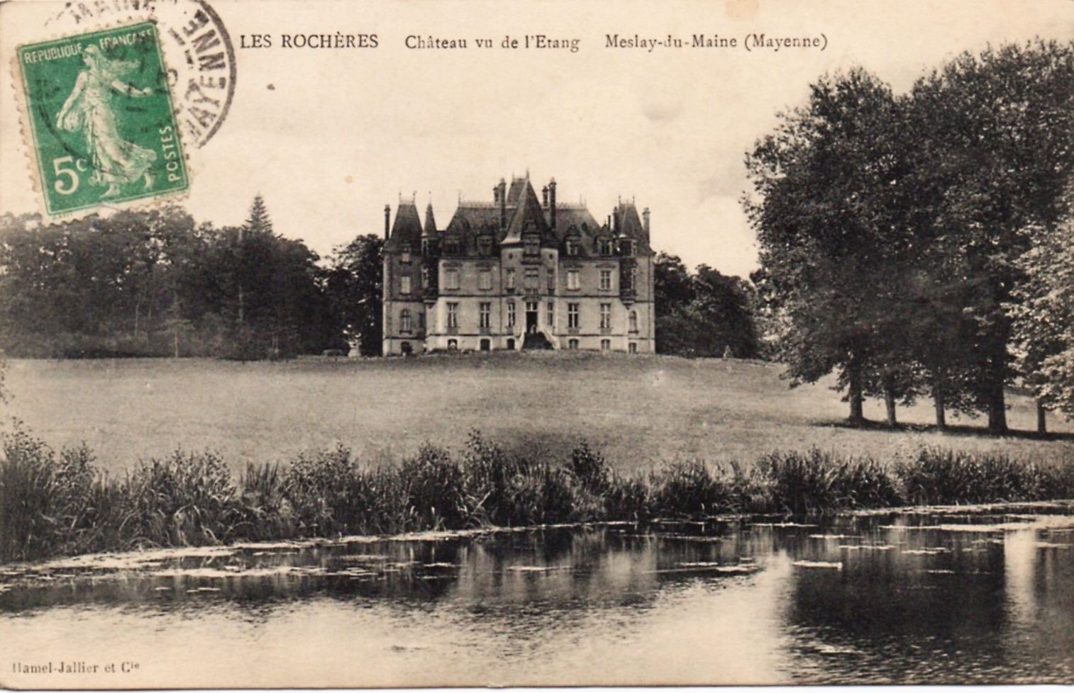 Carte postale, Le château des Rochères, vu de l'étang